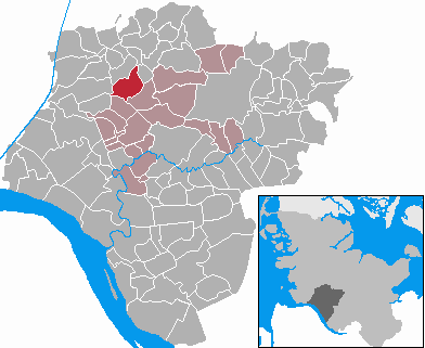 This map shows the area of the municipality Mehlbek in the Kreis (district) Steinburg, Schleswig-Holstein, Germany.